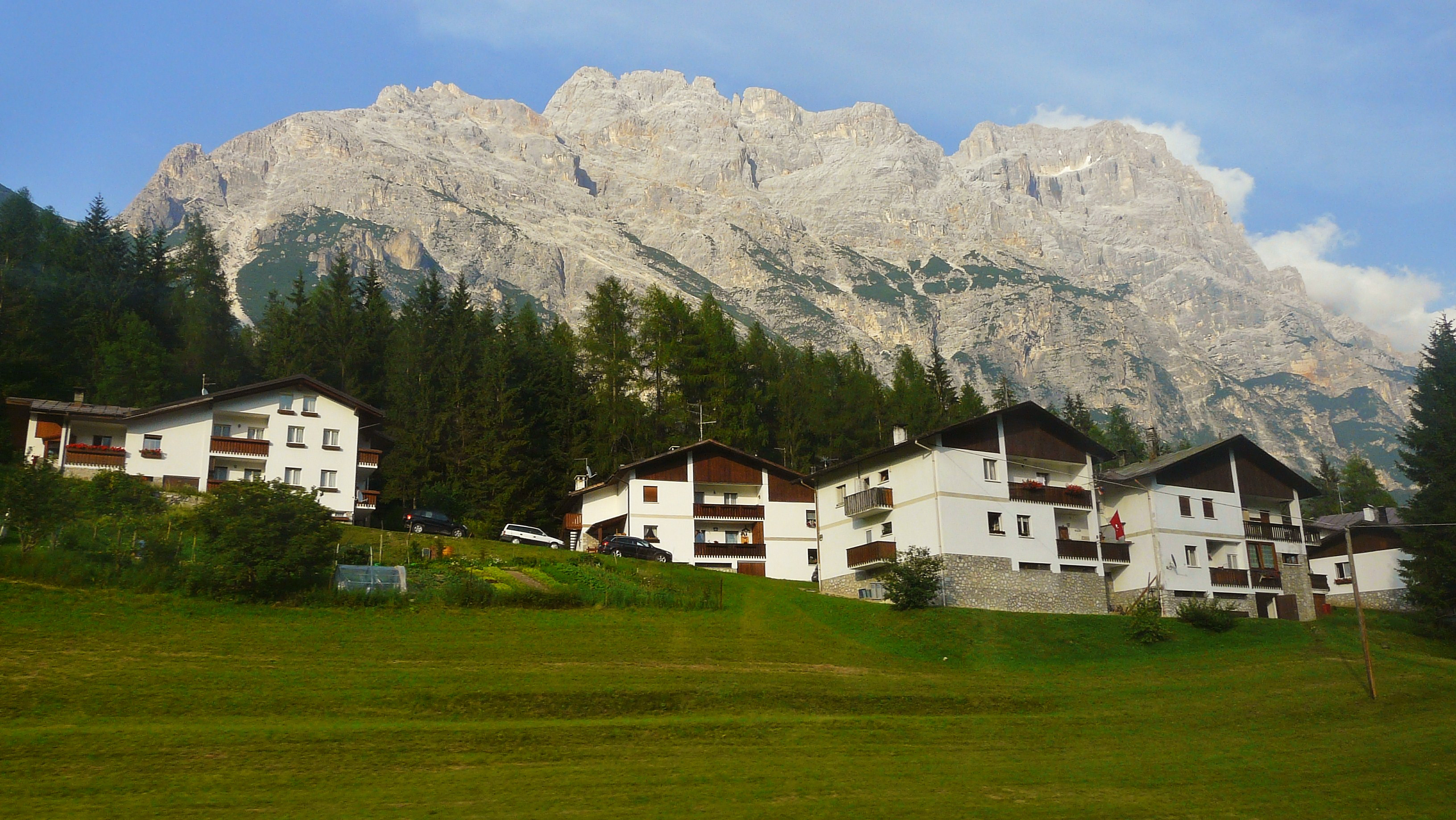 Acquabona / Agabòna (Cortina d'Ampezzo) and the mountain massif of Sorapiss above in 2009 July.